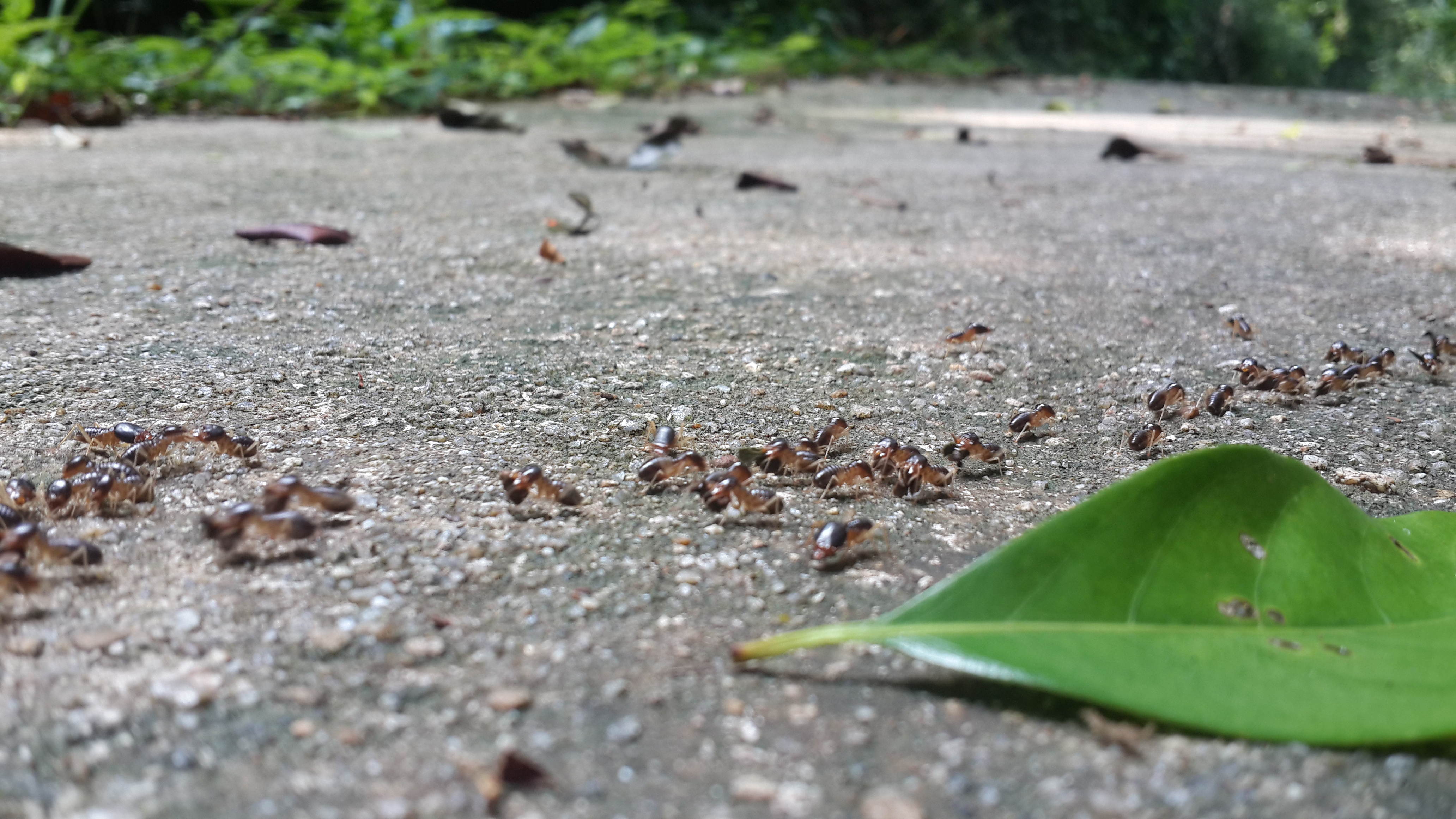 termites walking in line back to their nest